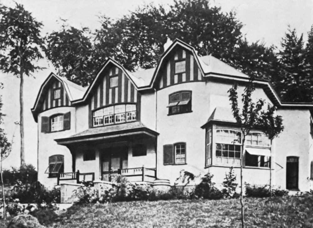 Bloemenwerf house, residence house of Belgian painter, architect and interior designer Henry van de Velde , built in 1895.